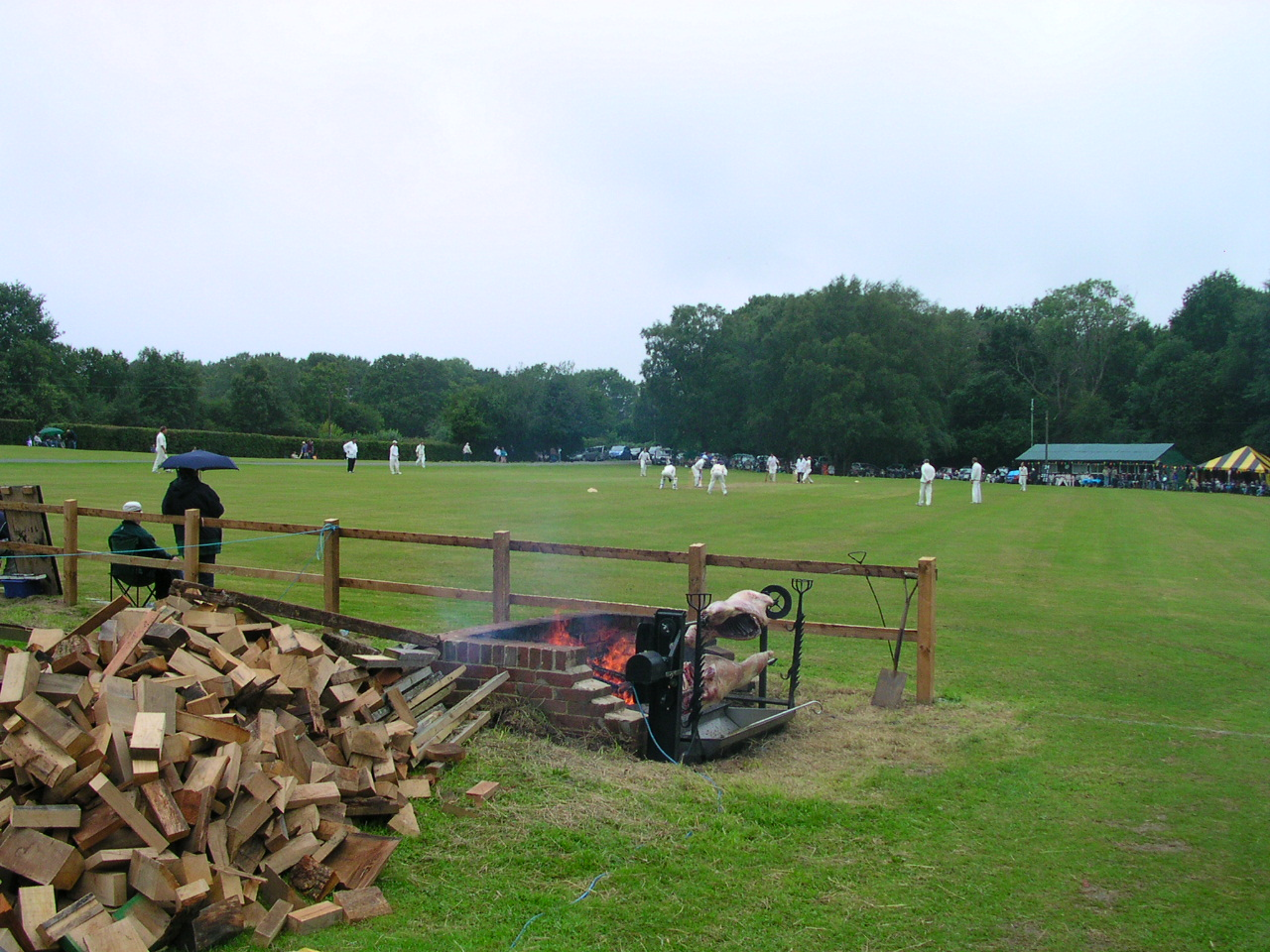 My own work